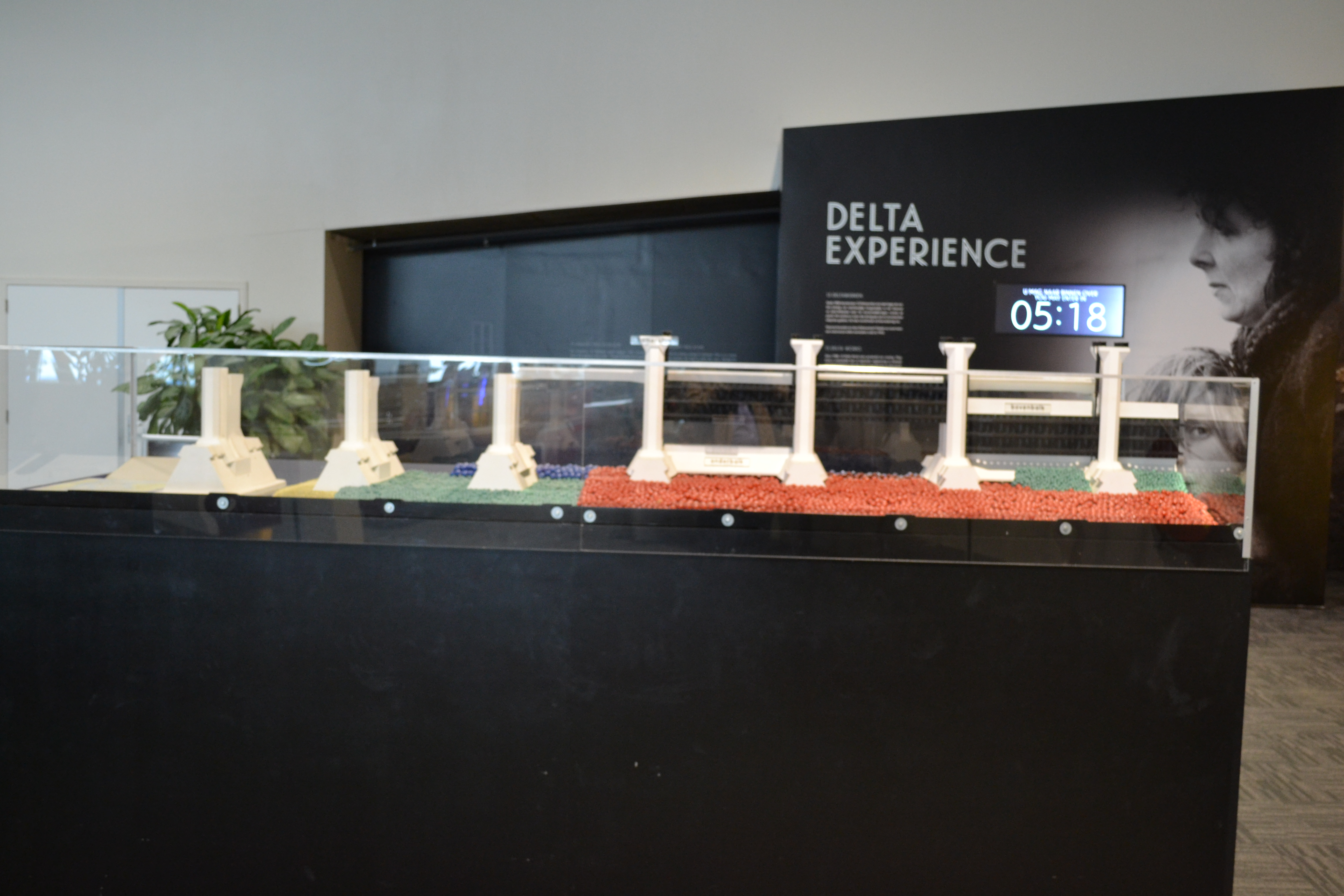 Delta Expo en Experience bij neeltje jans